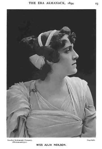 Miss Julia Neilson ca.1894